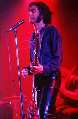 Jon Spencer performing with Blues Explosion in 2006.